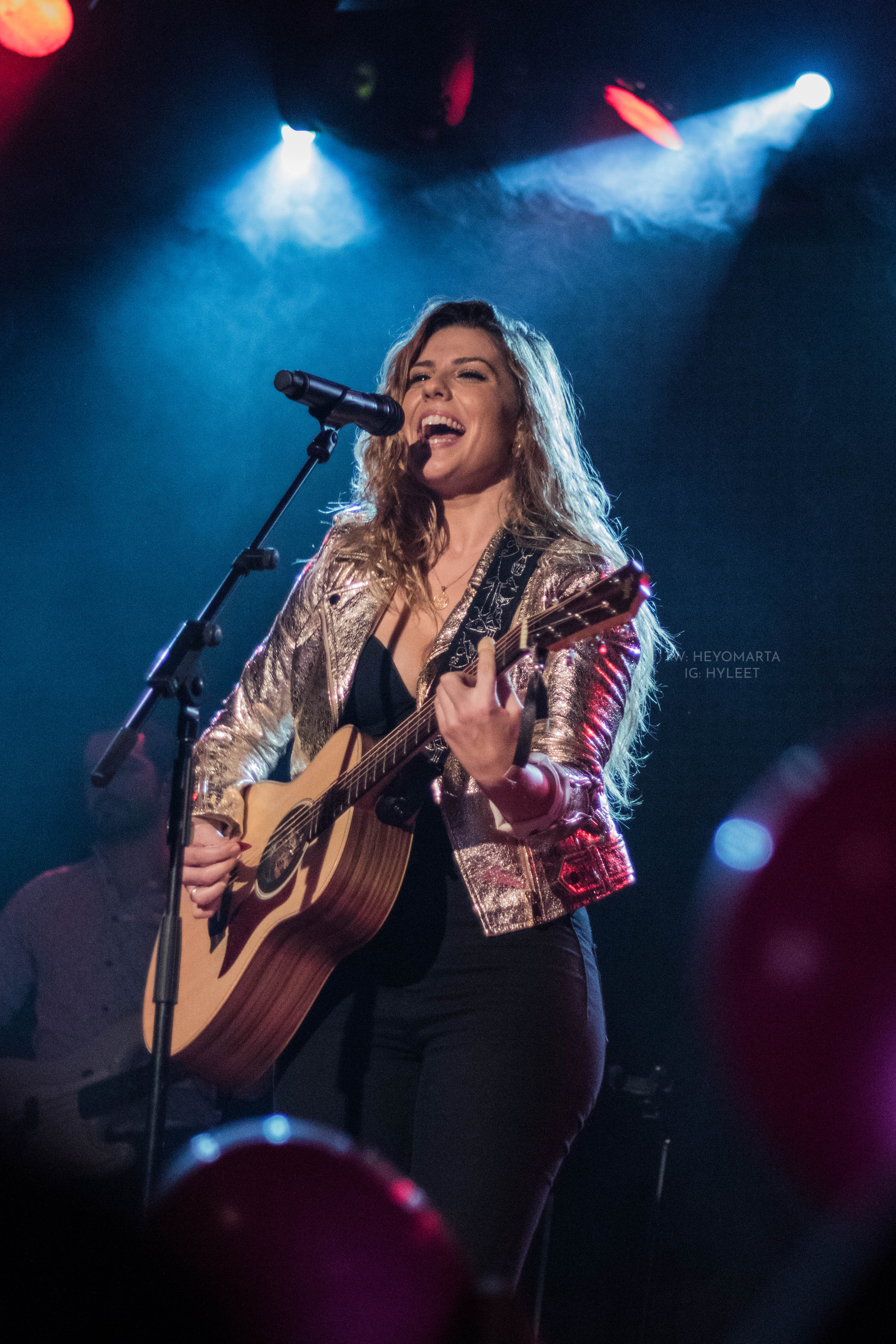 Spanish singer Miriam Rodríguez in 2019.